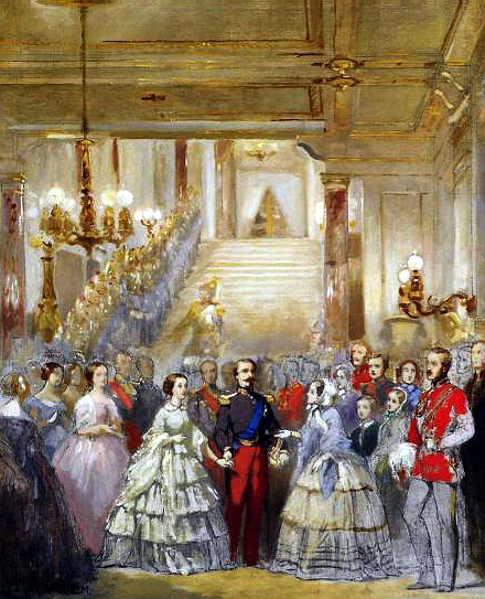 The Reception of Queen Victoria by Napoleon III at St Cloud, 18 August 1855